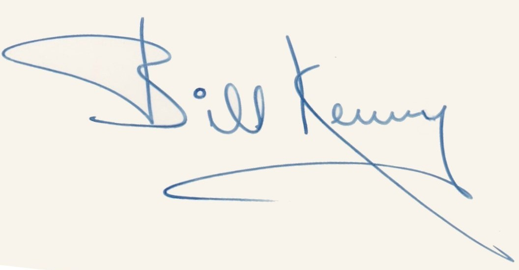 Scan of Bill Kenny's signature